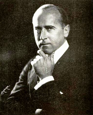 American film director William P.S. Earle (1882 – 1972) from an ad on page 36 of the April 24, 1921 Film Daily.